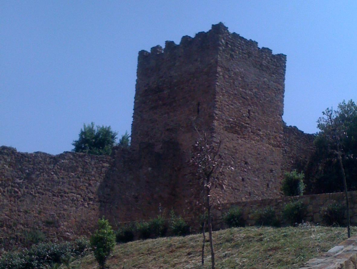 Medieval walls of Iglesias - Italy , Sardinia.